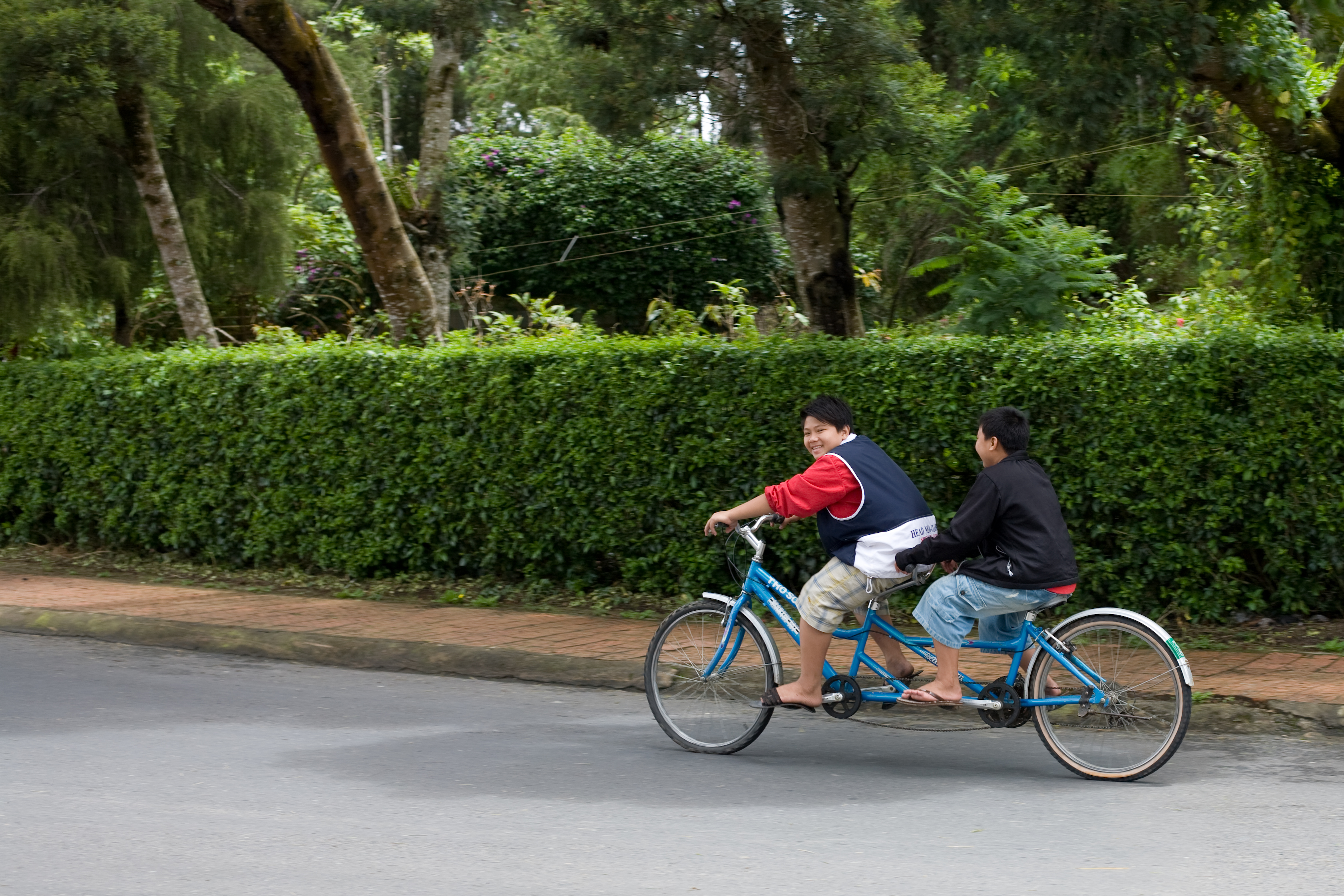 Tourists in Da Lat